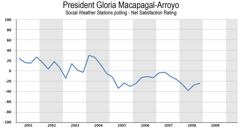 Net satisfaction rating ("satisfied" minus "dissatisfied") of Philippine President Gloria Macapagal-Arroyo, based on quarterly polling of Social Weather Stations. Chart created in Microsoft Excel, then prettied up with Adobe Photoshop.